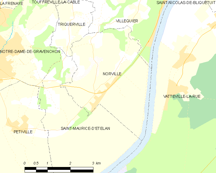 Map of French municipality Norville